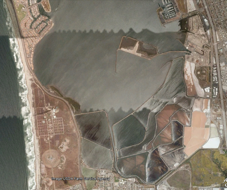 Satellite view of the salt ponds at the South Bay Salt Works.